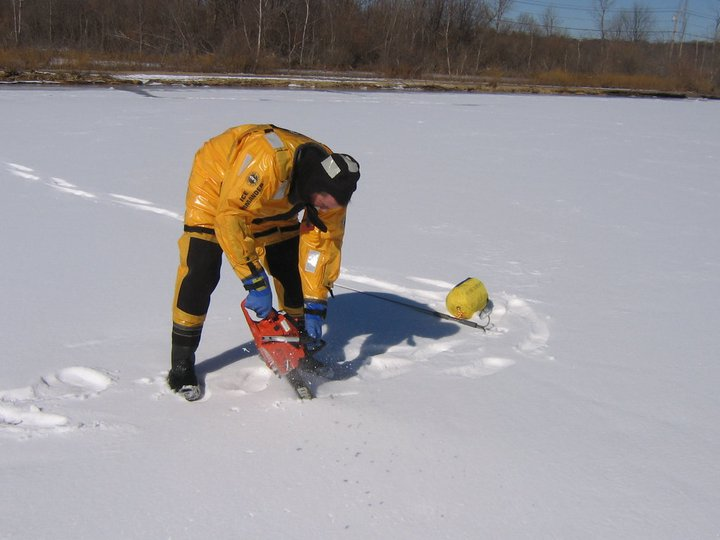 Cutting the ice hole with chainsaw